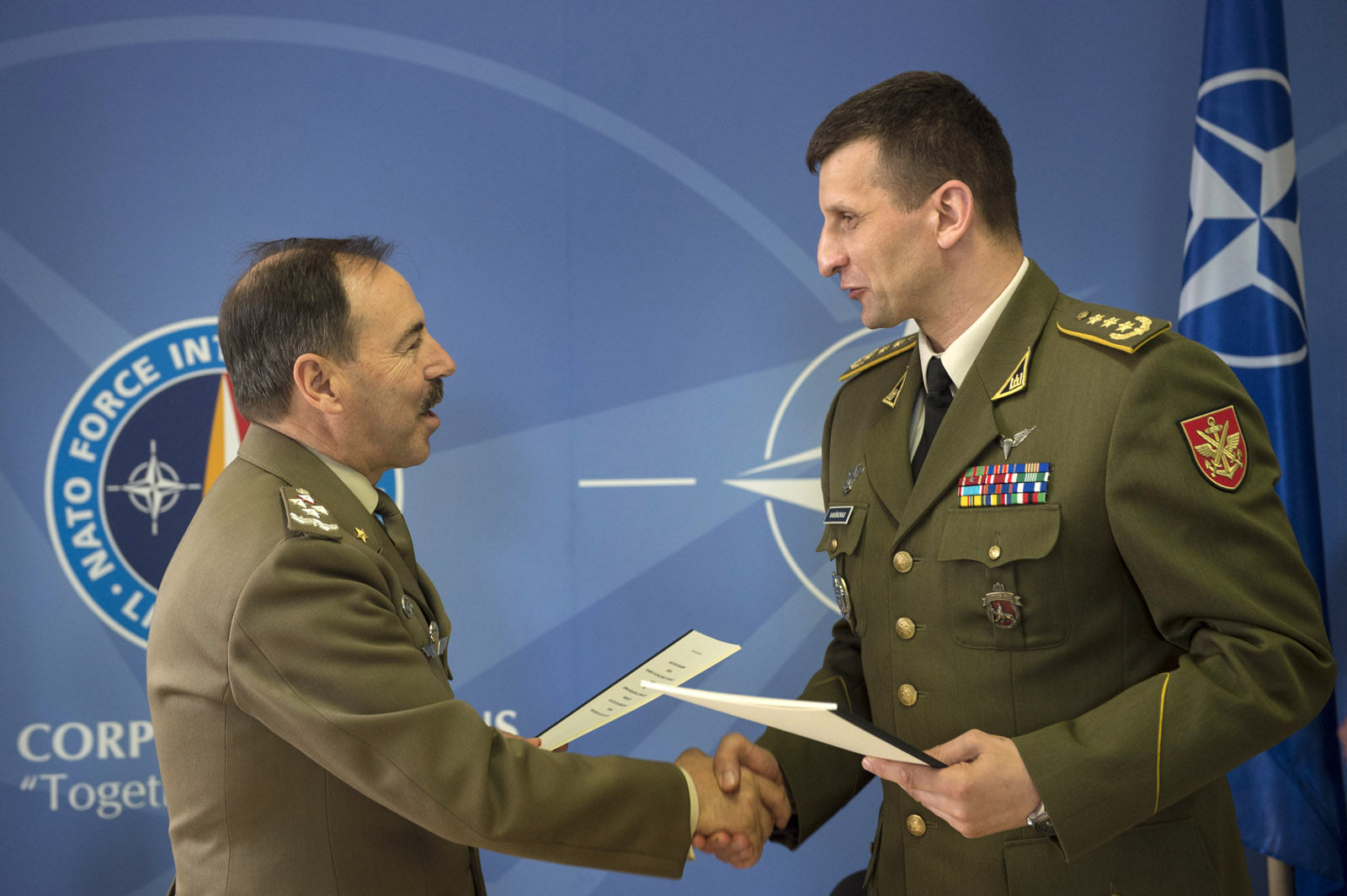 Commander JFC Brunssum Visits Lithuania